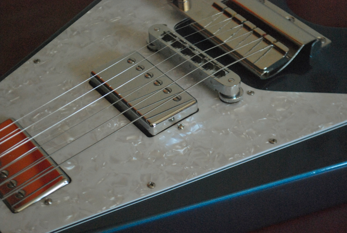 2007 Gibson Flying V - Vibrola, Burstbucker Pro Pickups, Lake Placid Blue 2007 Gibson Flying V '67 Reissue refinished in Lake Placid Blue. Features: Original vibrola tremolo system by Gibson Pearloid pickguard Gibson Burstbucker Pro pickups Black snakeskin hardcase (white plush inside).